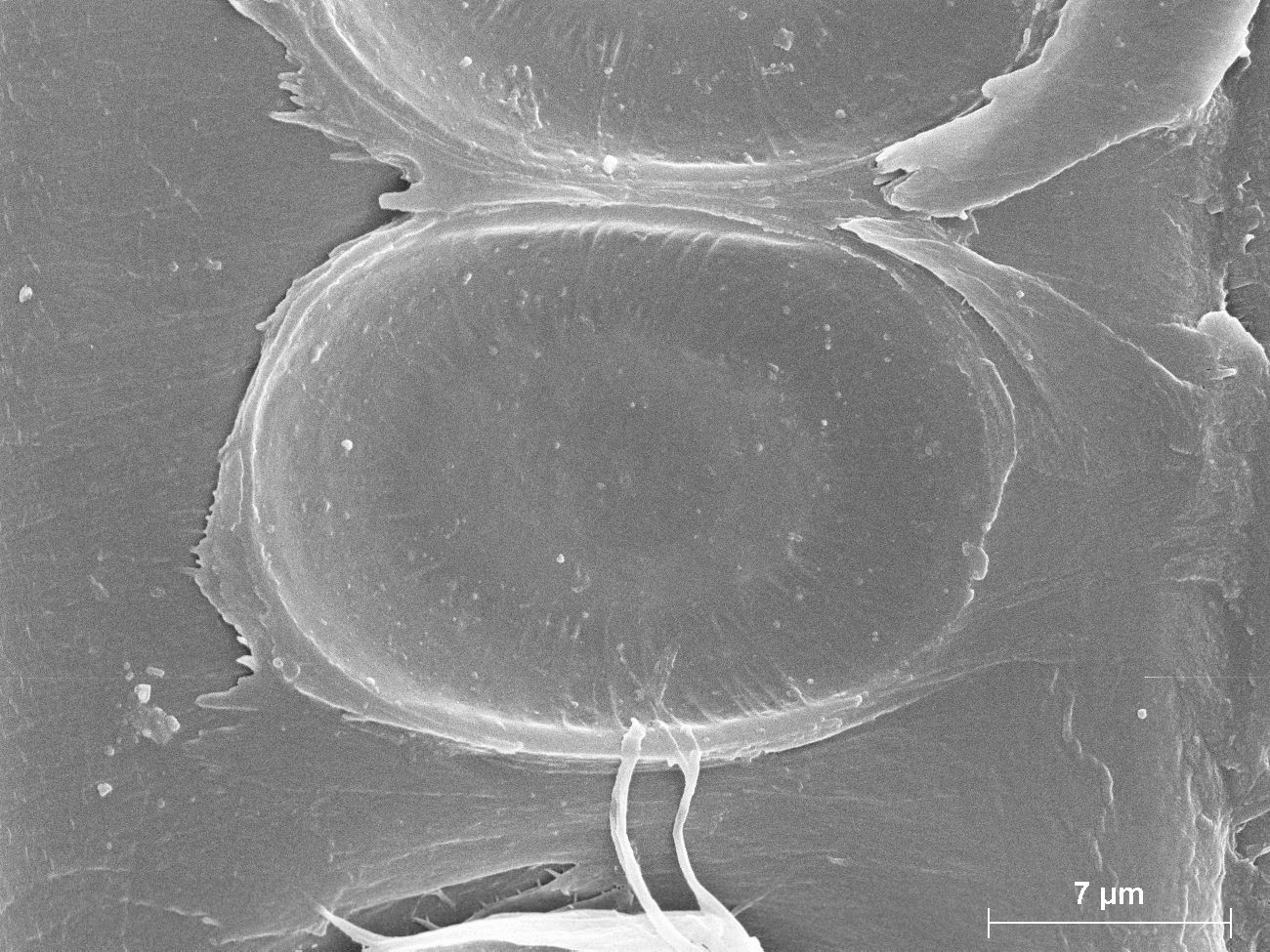 Pit aspiration in heartwood (Picea abies)